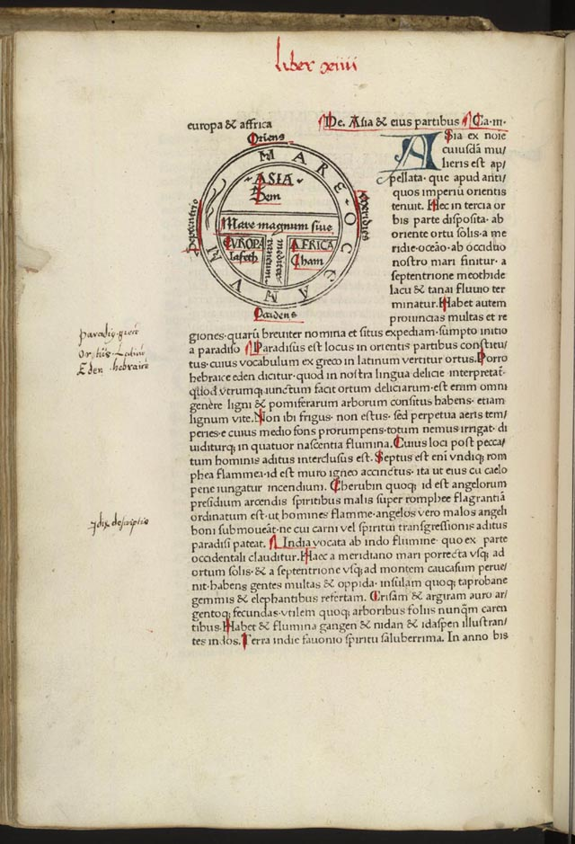 T and O style mappa mundi (map of the known world) from the first printed version of Isidorus' Etymologiae (Kraus 13). The book was written in 623 and first printed in 1472 at Augsburg by one Günther Zainer (Guntherus Ziner), Isidor's sketch thus becoming the oldest printed map of the occident. Note: T-O-maps are typically displayed "East-up", show Jerusalem at the center and the paradise at the outmost East, balanced by the pillars of Hercules at the outmost West.